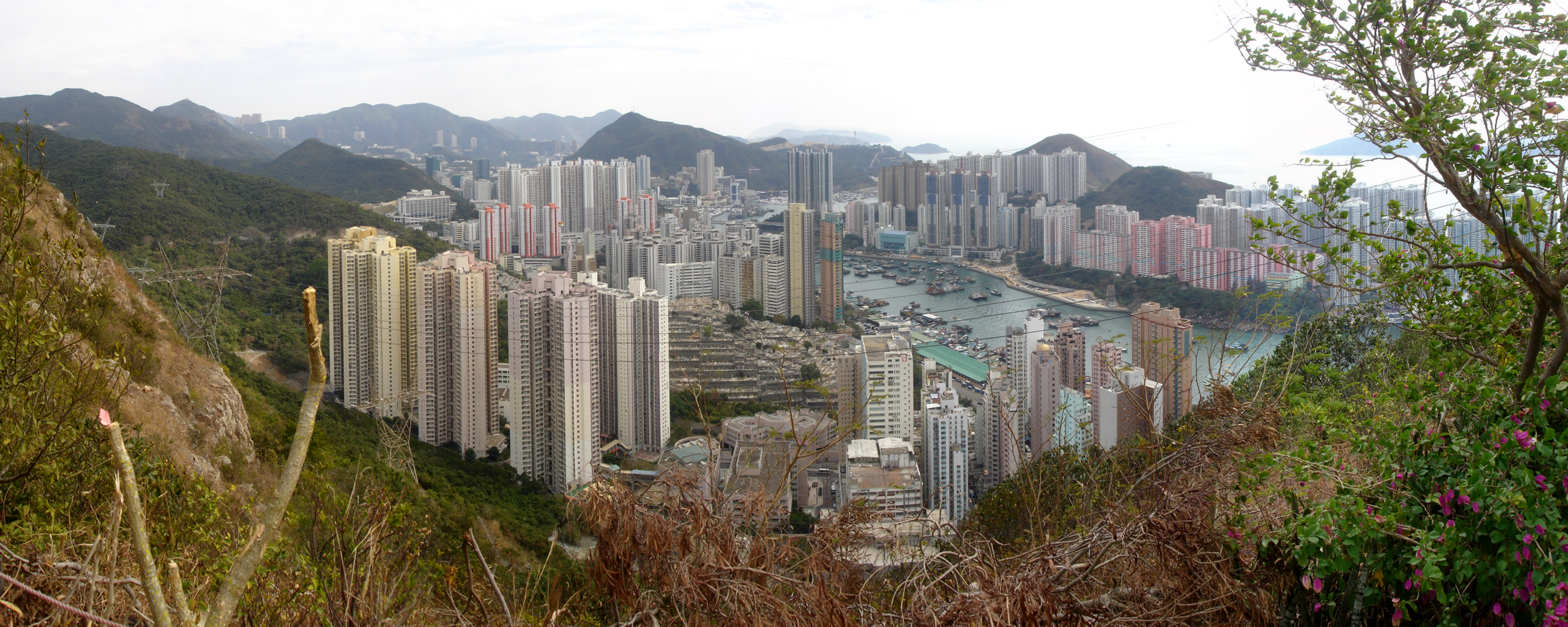 Panoramic view of Aberdeen Harbour, Hong Kong